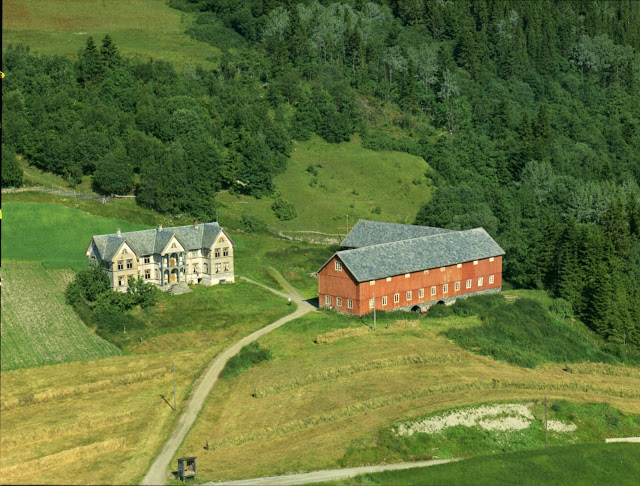 The farm Melvold in Mosvik, Inderøy, Norway. Built and owned by mayor Ola M. Hestebeit. Photo from Mosvik municipality archives in cooperation with Mosvik hsitorielag.